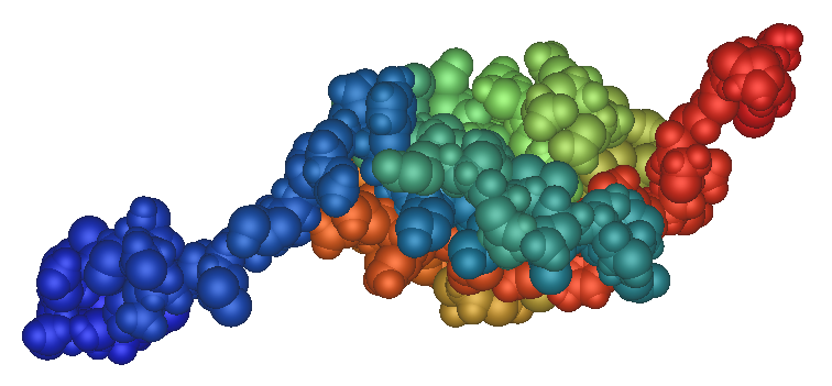 structure schematic of human SUMO1 protein made with iMol and PDB file 1A5R, an NMR structure; ribbon view